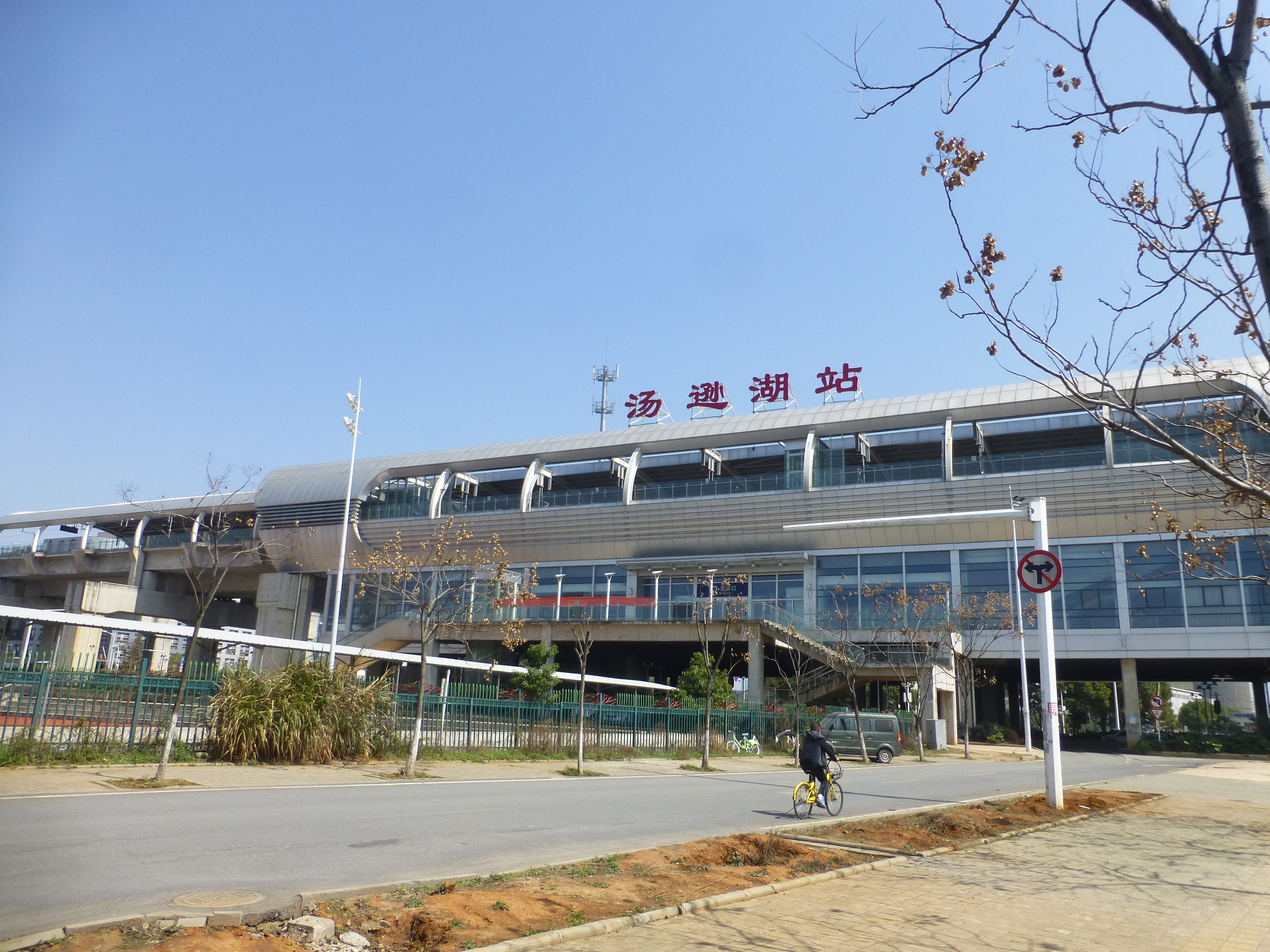 Tangxunhu Station of the Wuchang-Xianning commuter railway.